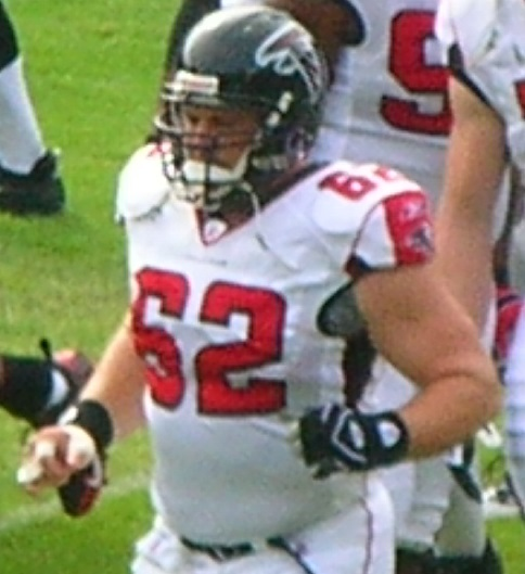 The Atlanta Falcons take the field at Oakland Coliseum prior to a road game against the Oakland Raiders. The Falcons won 24-0.